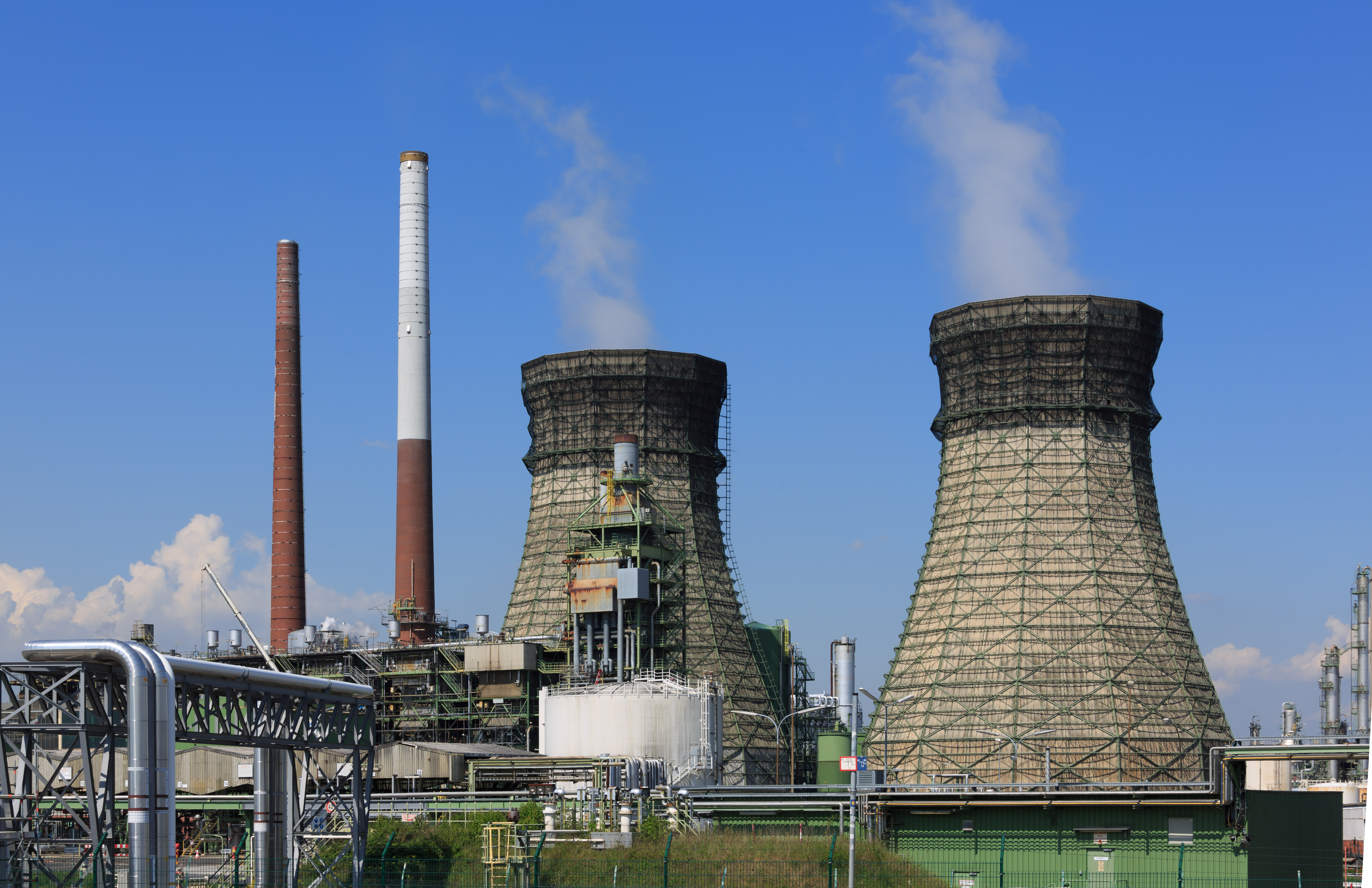 Godorf, Köln, germany: Cooling towers of Rhineland Refinery Godorf